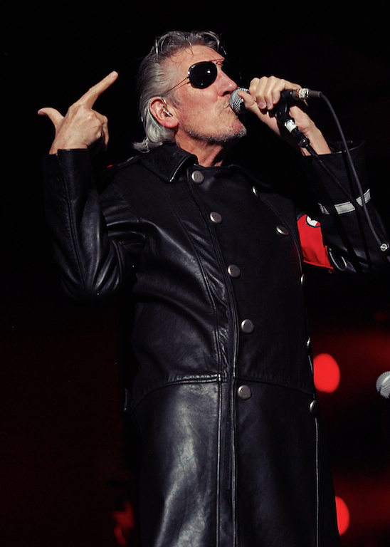 Roger Waters performing The Wall at the Scotiabank Place in Ottawa.Photo by: Brennan Schnell/Eastscene.com